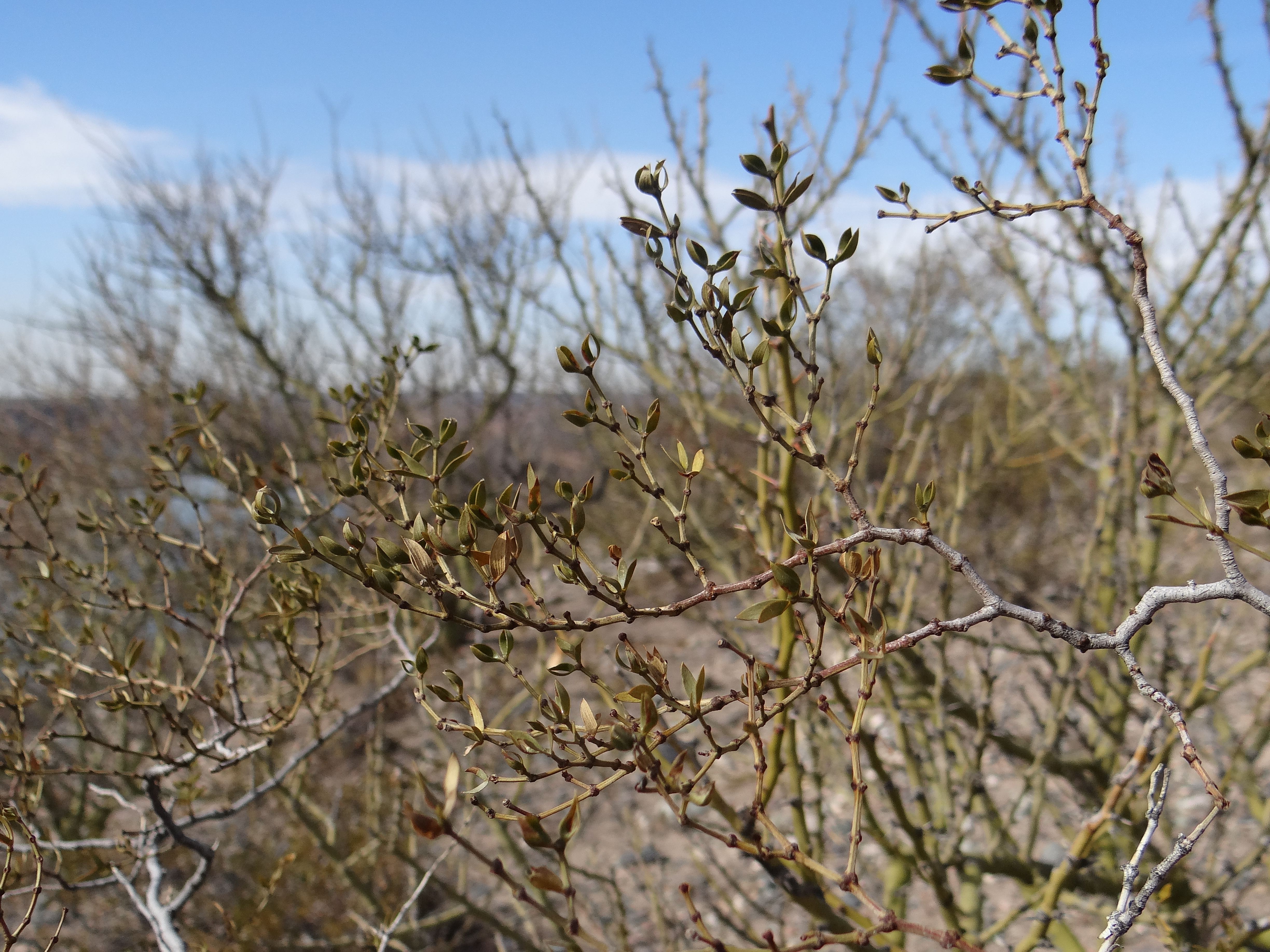 Larrea divaricata o jarilla hembra